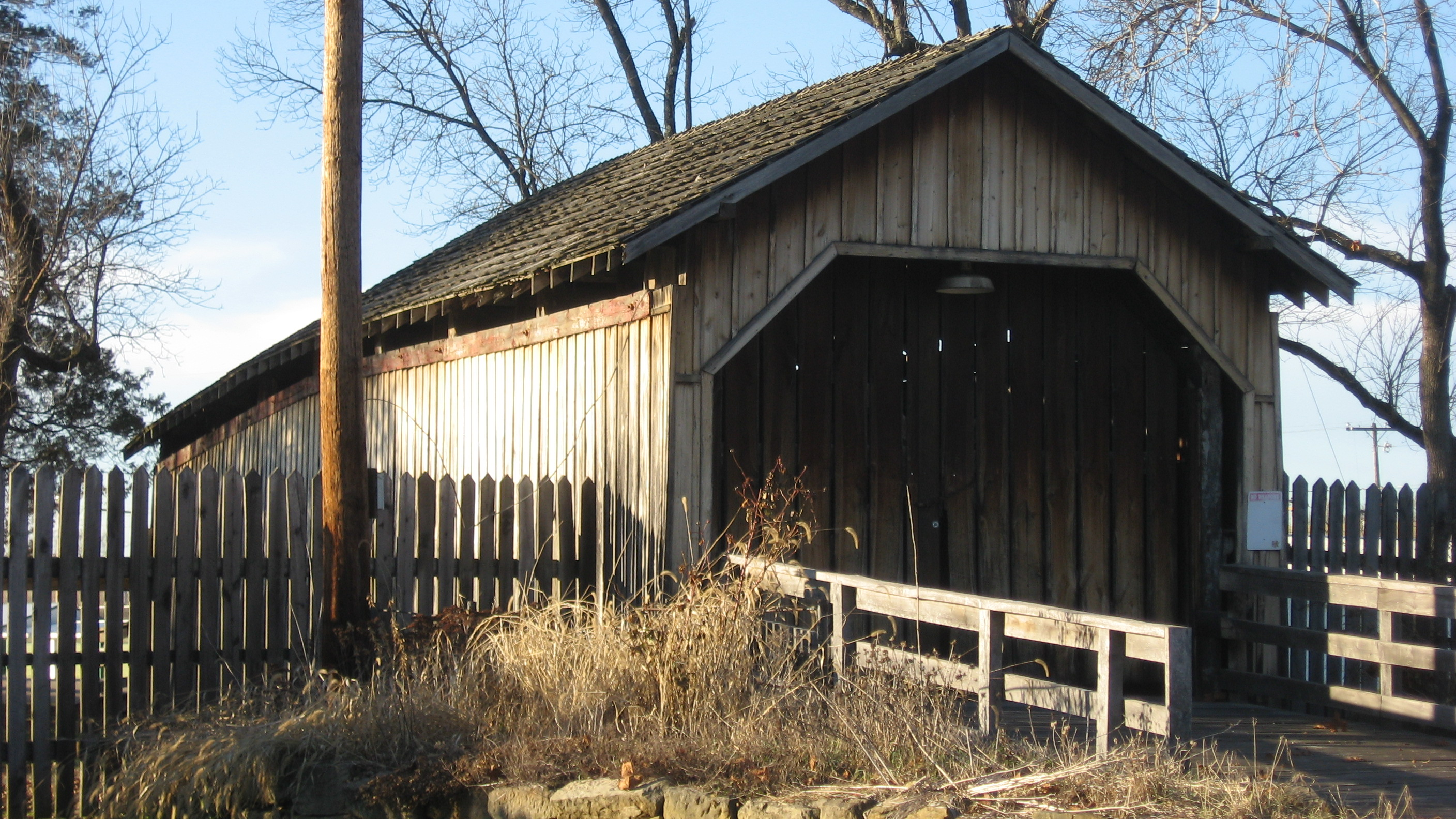 View from the southeast of the Bowman Mill Covered Bridge, located on the Perry County Fairgrounds at the junction of Broadway (State Route 37) and Thorn Street near New Lexington in Pike Township, Perry County, Ohio, United States. Built in 1880 and moved to its current location in 1987, it is listed on the National Register of Historic Places.